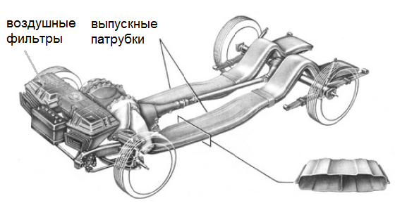 The Chrysler Turbine Car. Exhaust system.